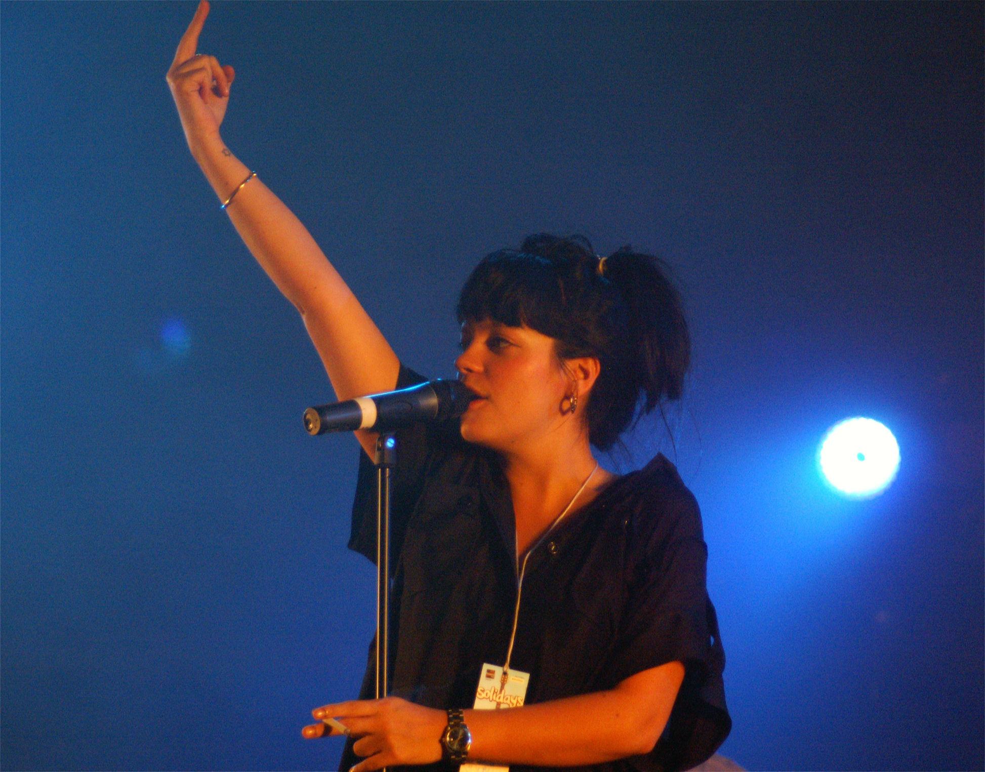 This one was meant for a guy called George Bush, she said